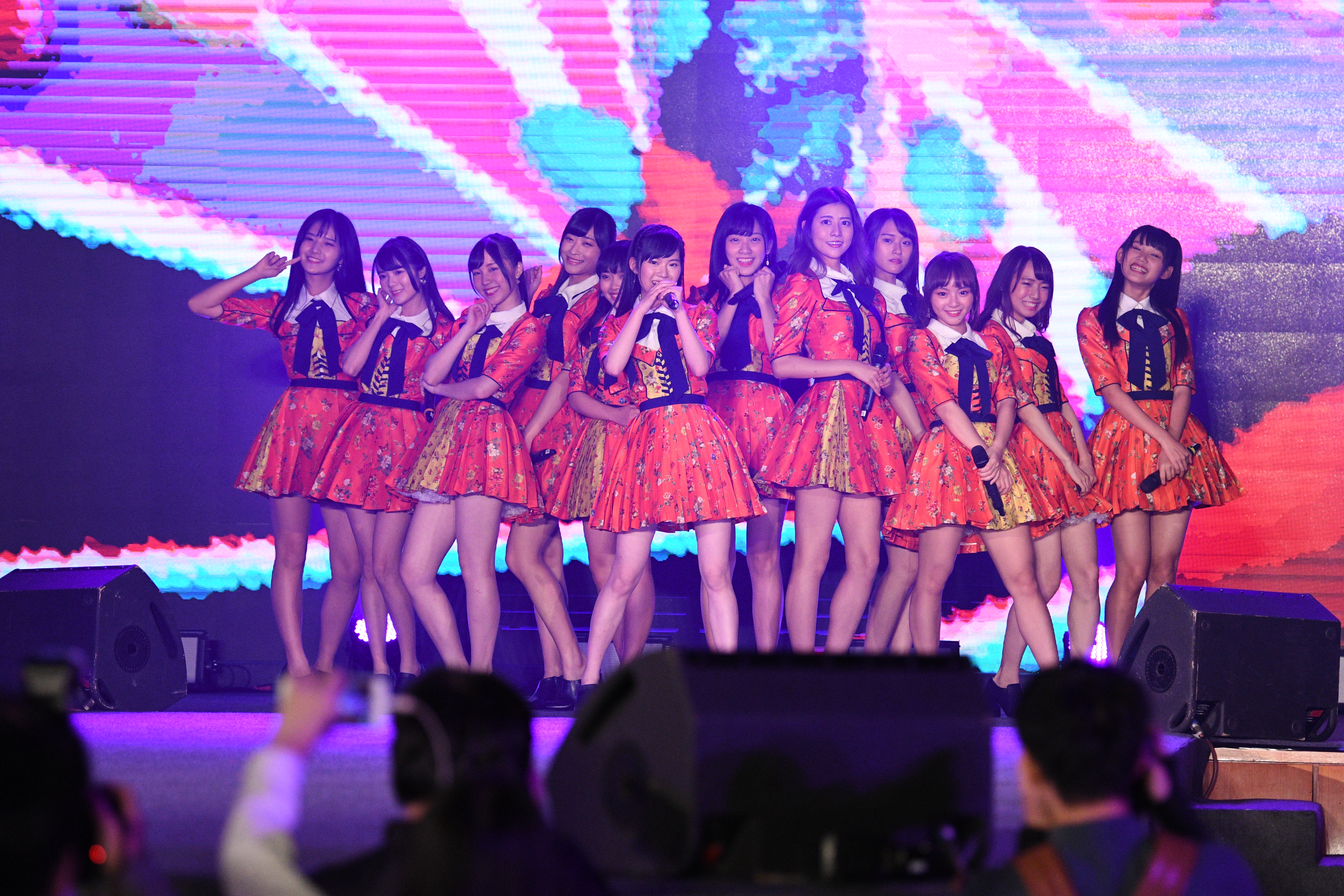 2018.12.08『COOL JAPAN FEST 2018 in 台北圓山大飯店』AKB48 Team TP Photo by AKB48-Taiwan Clubs 李承儒